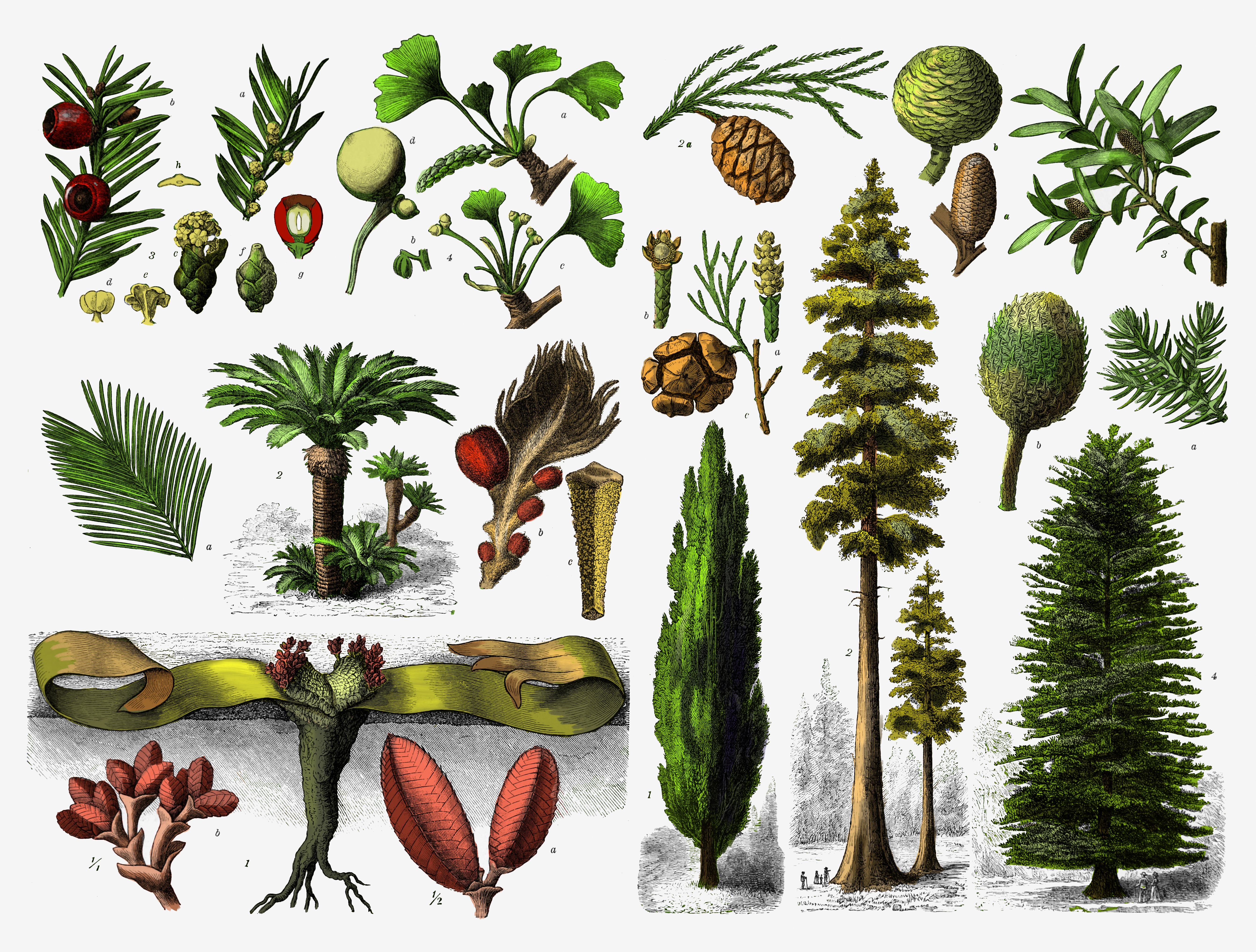 Various gymnosperms LEFT 1-Welwitschia mirabilis 2-Cycas revoluta 3-Taxus baccata 4-Gingko biloba RIGHT 1-Cupressus sempervirens 2-Sequoiadendron giganteum 3-Dammara orientalis 4-Araucaria heterophylla